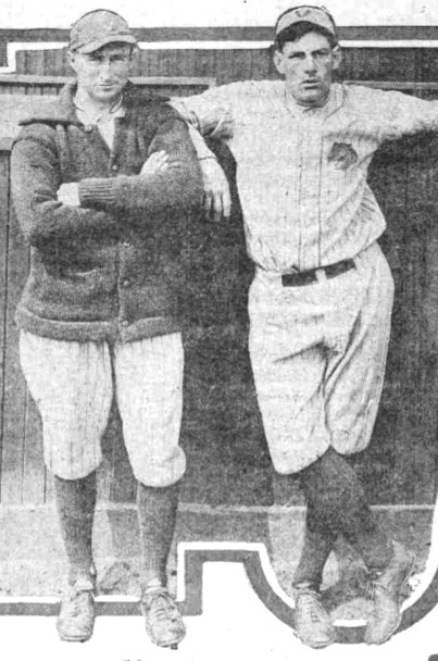 Professional baseball players (left) Danny Murphy and Truck Hannah (right)